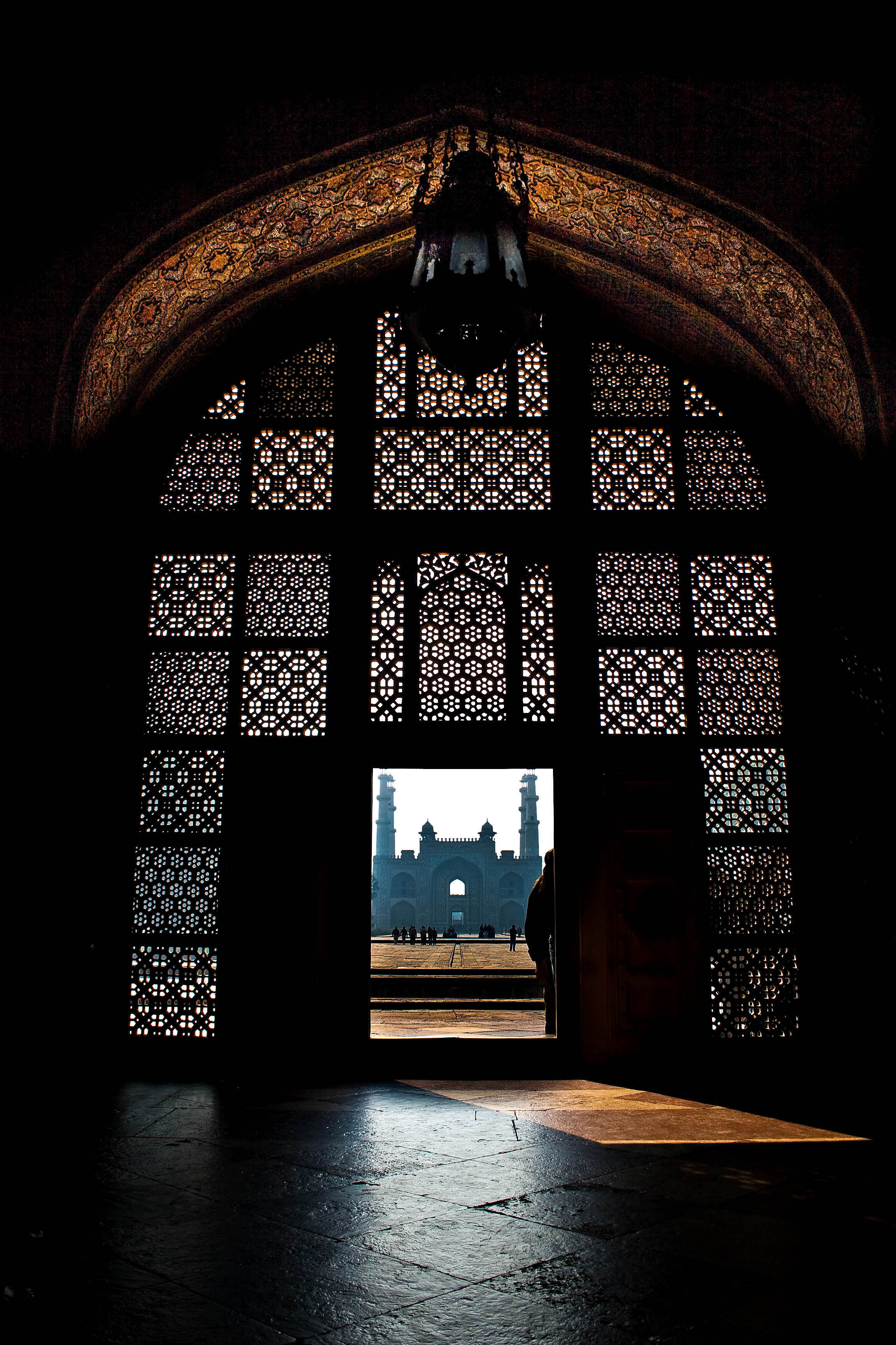 A short distance from Agra, lies the tomb of the Mughal Emperor Akbar the Great, in Sikandra. Akbar who ruled over the Mughal Empire from 1556 to 1605, began building his mausoleum in the spartan style of Timurid architecture. He started building this mausoleum that was to be a perfect blend of Hindu, Christian, Islamic, Buddhist and Jain designs and motifs, bespeaking of his religious tolerance and secular views.